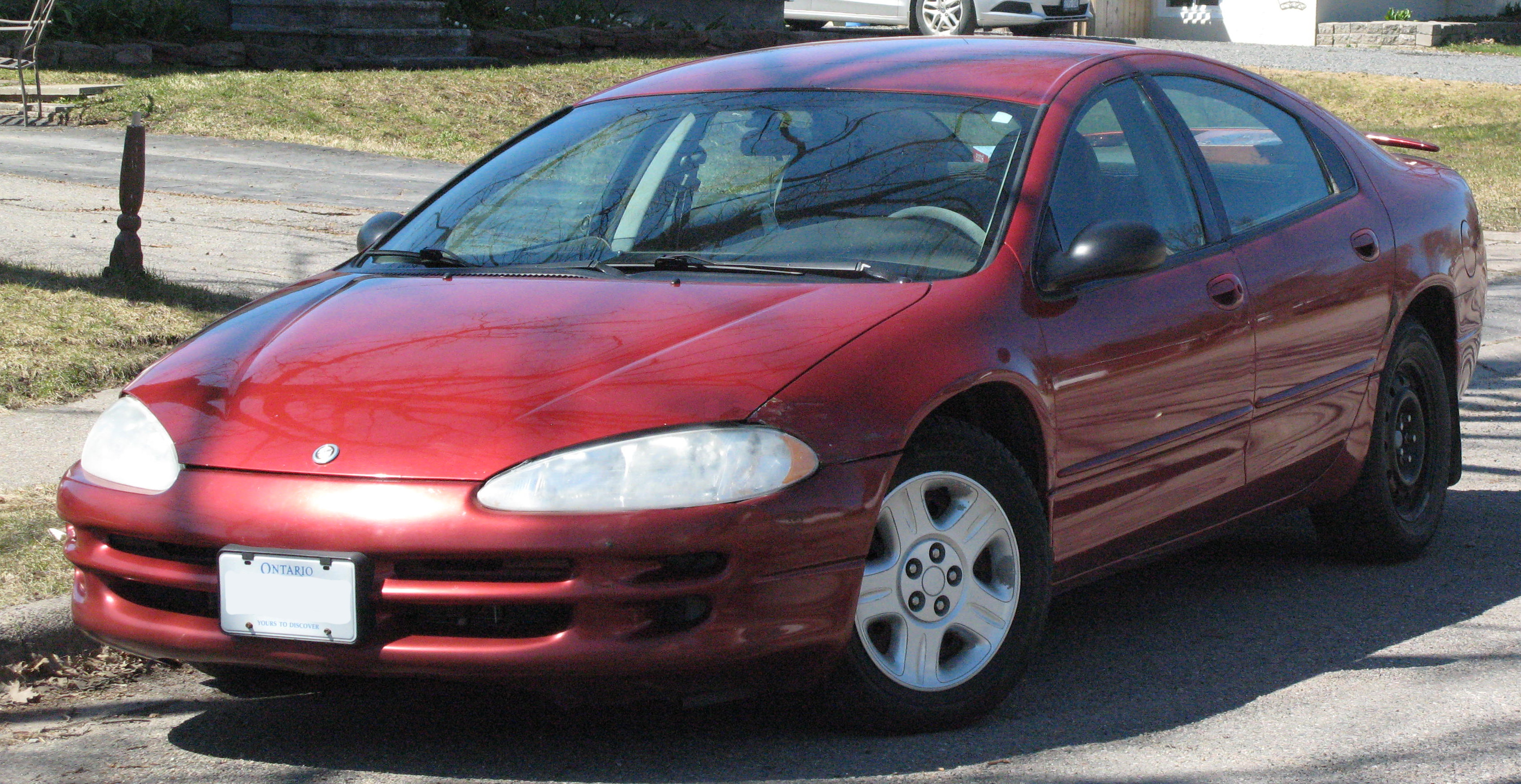 2002 Chrysler Intrepid SE photographed in Sault Ste. Marie, Ontario, Canada